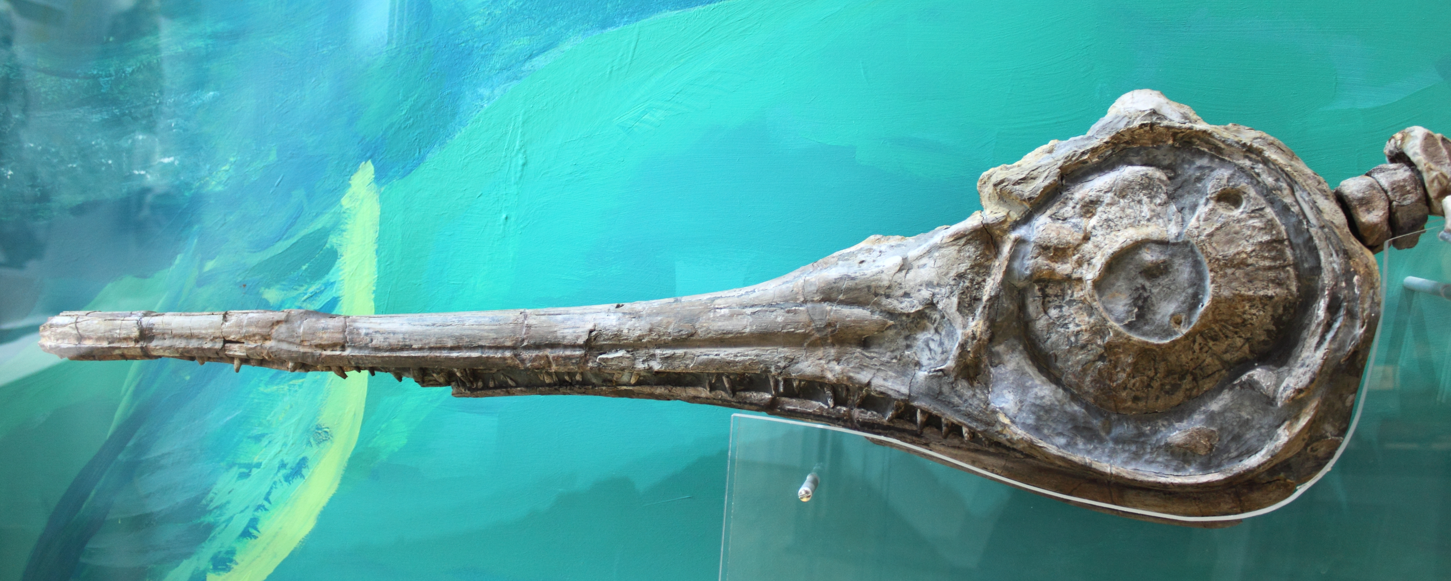 Eurhinosaurus longirostris from Schandelah (Germany), now in the museum in Koenigslutter